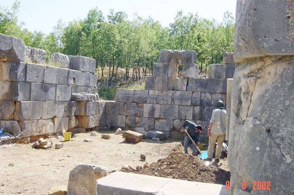 خبراء بعثة فرنسية 2002 يدرسون آثار دير الازرق المغيري- يانوح.